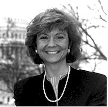 Susan Molinari, US Representative from New York